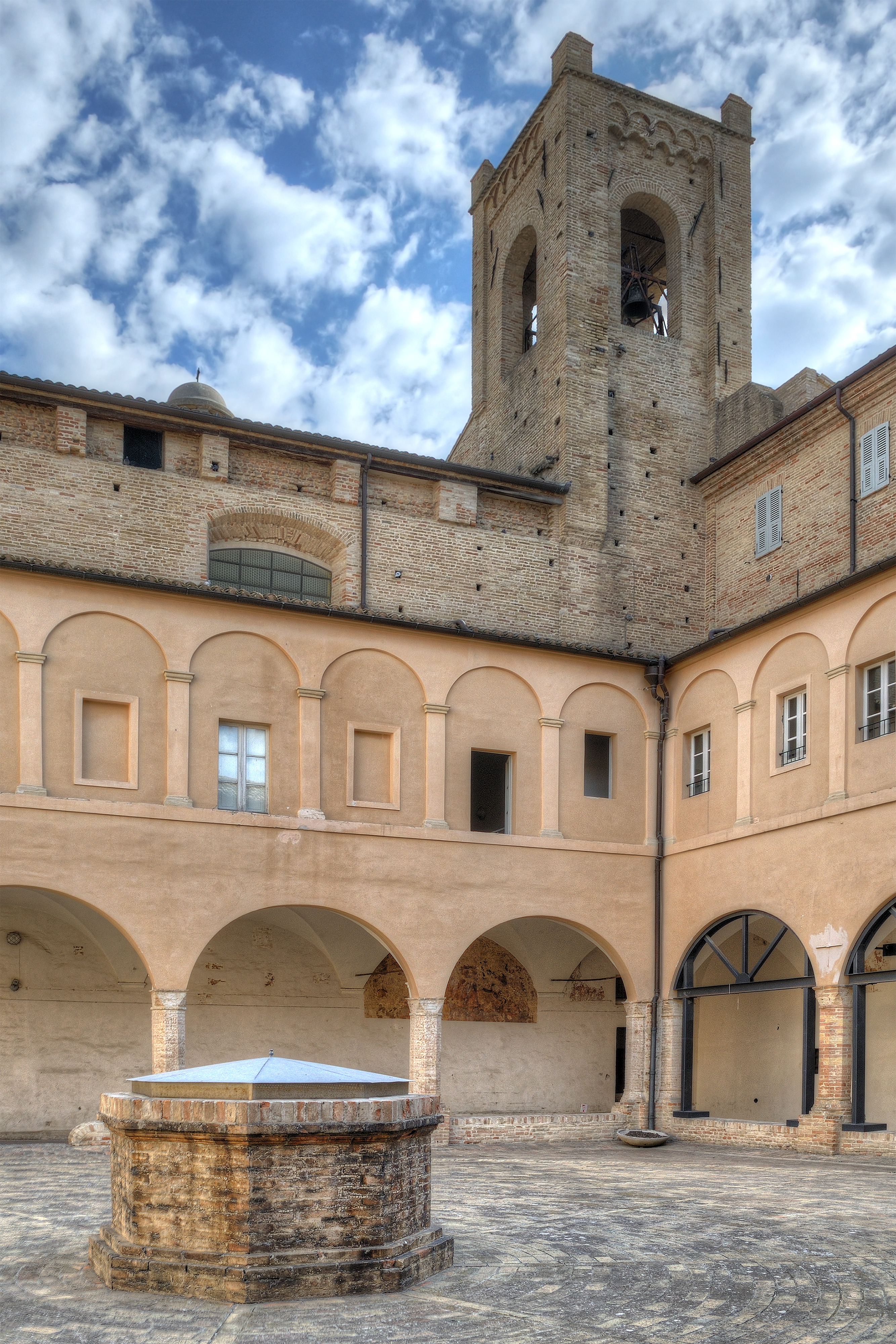 Torre del Passero Solitario - Recanati, Macerata, Italy